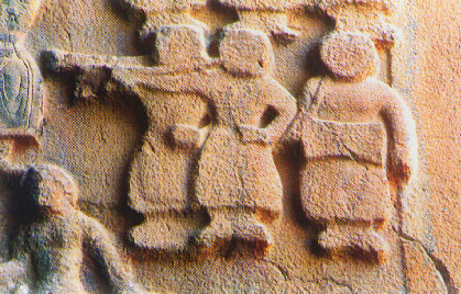 these are identified as unfinished carvings, the figures have been blocked-out but yet to be completed, as elsewhere on the two hunting panels in the larger iwan